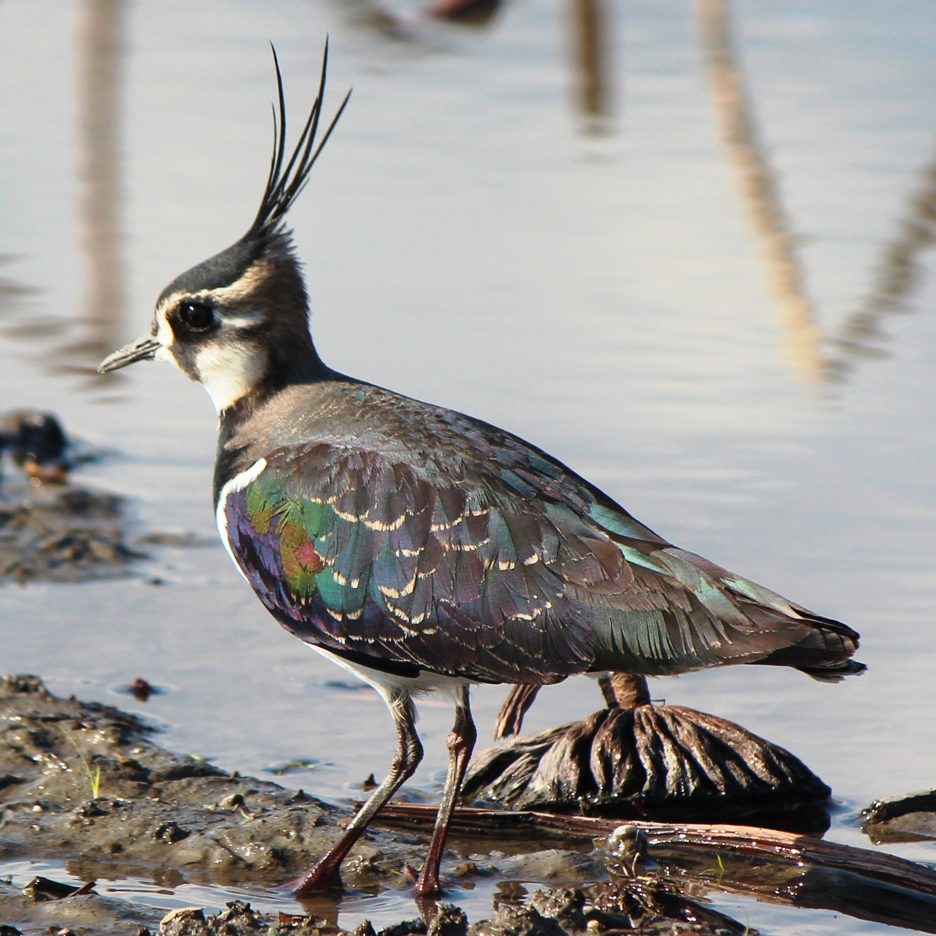 Vanellus vanellus (Northern Lapwing), in Japan.